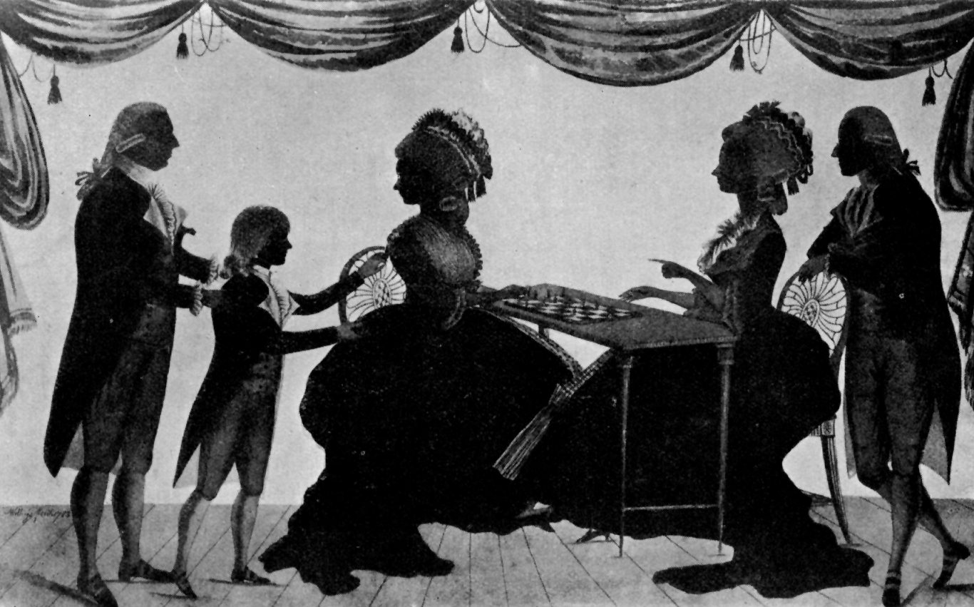 Rev. George Austen presenting his son Edward to Mr. and Mrs. Thomas Knight of Godmersham